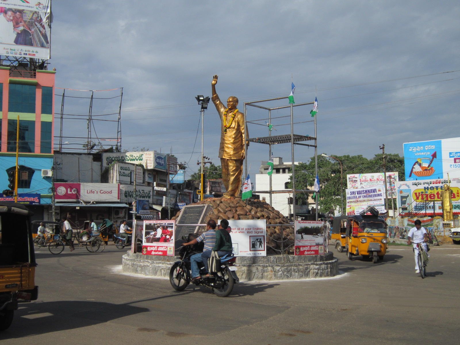 seven road junction in srikalumam city